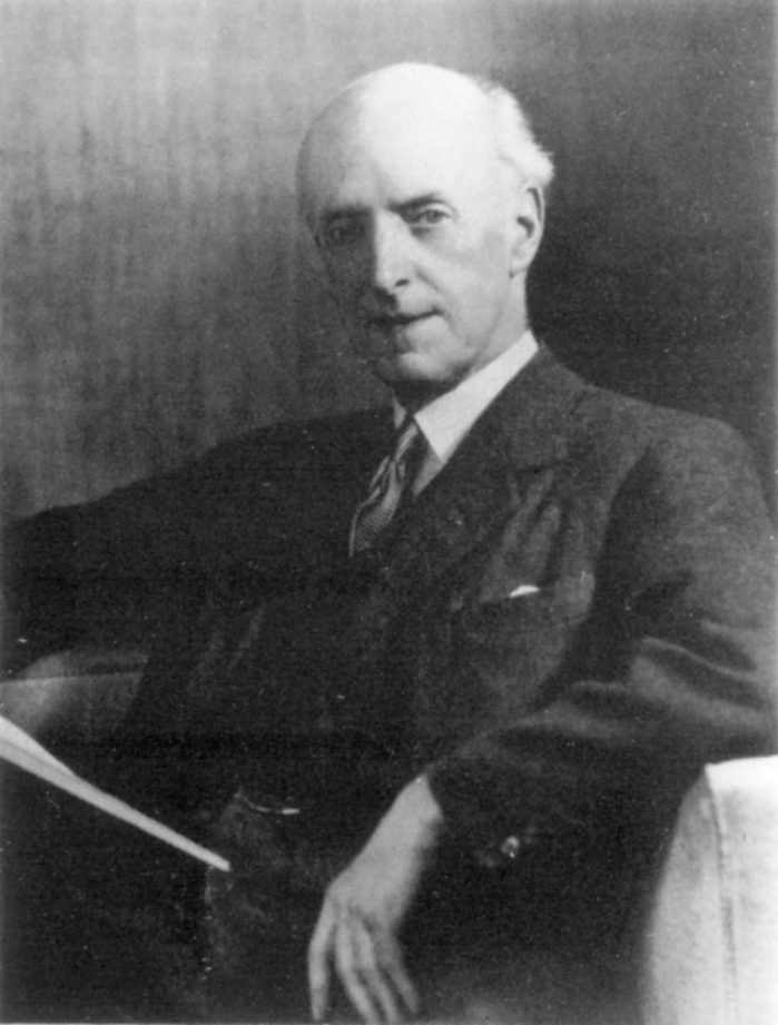 Photograph of Frederick Sykes (1877-1954) in his later years.